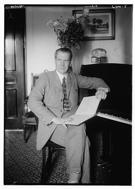 Carl Martin Oehman (Öhman) (1887 - 1967), Swedish tenor